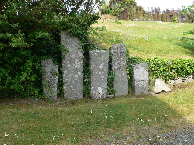 Inscribed stones at Llangaffo Church, near to Llangaffo, Isle of Anglesey/Sir Ynys Mon, Great Britain. A collection of early Christian stones, dated from the 7th to 12th centuries in the churchyard at Llangaffo.